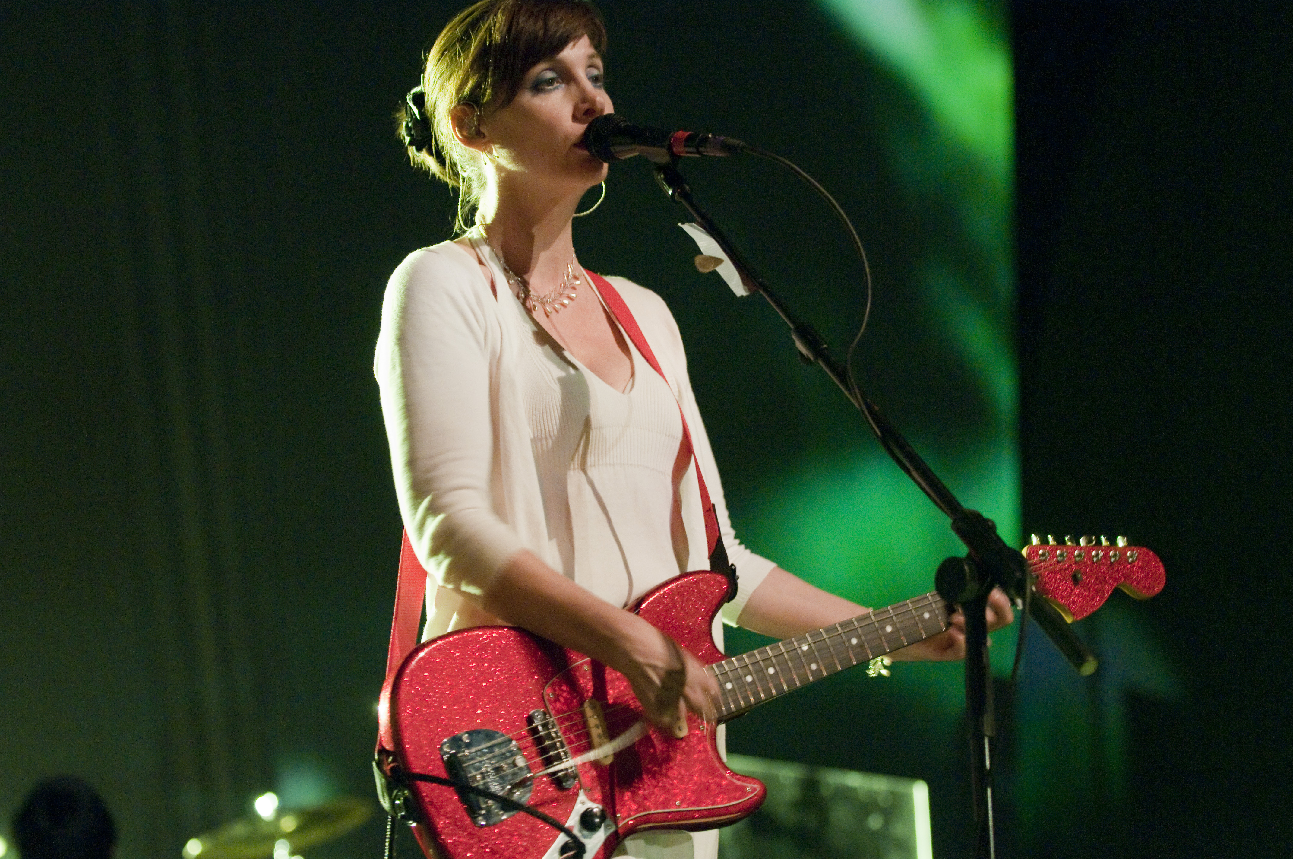 My Bloody Valentine